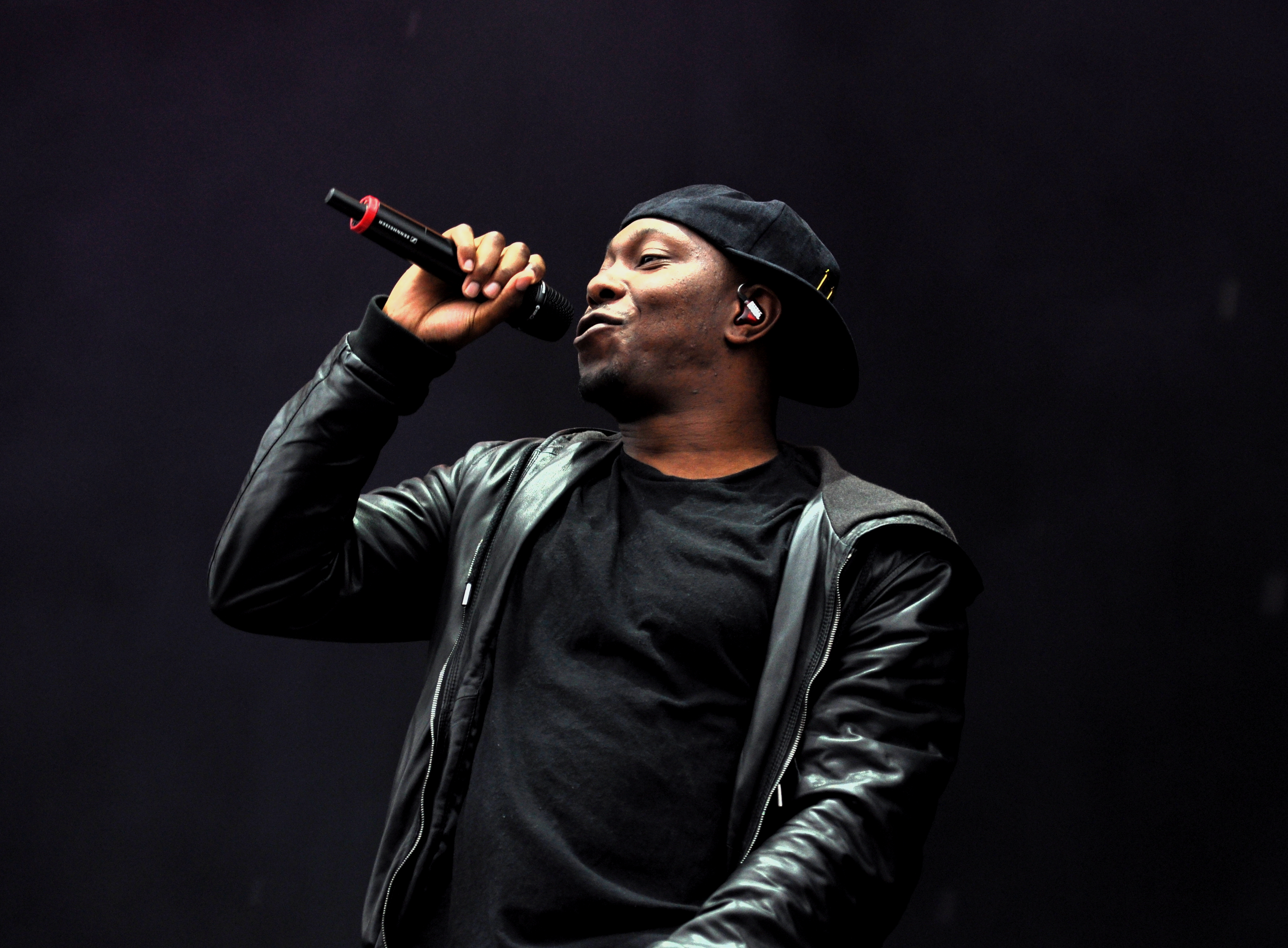 Dizzee Rascal at Rock am Ring 2013